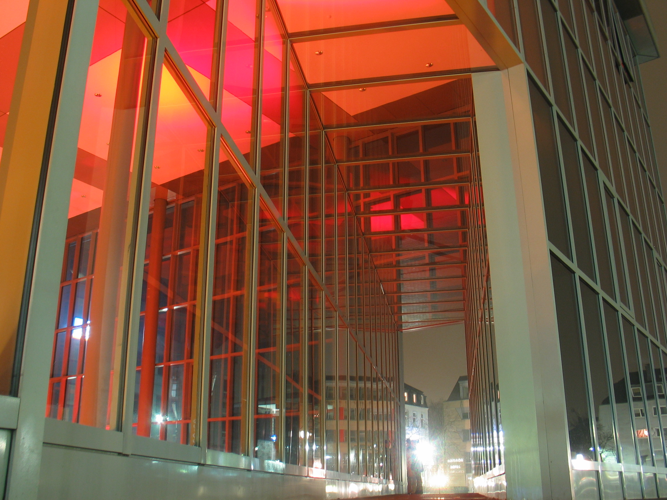 Thermen at Viehmarkt in Trier, Architect: Oswald Mathias Ungers